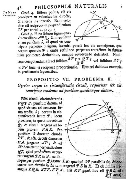 A page from the 1726 edition of the Principia.